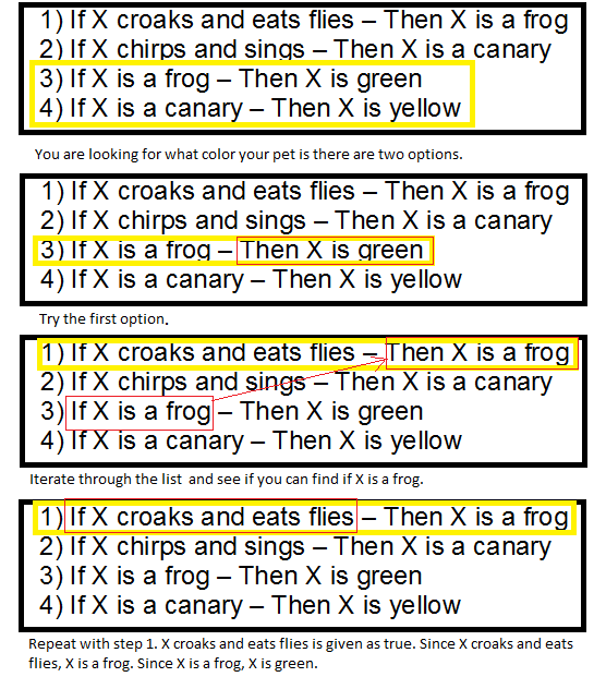 Here is a graphical example of backward chaining.